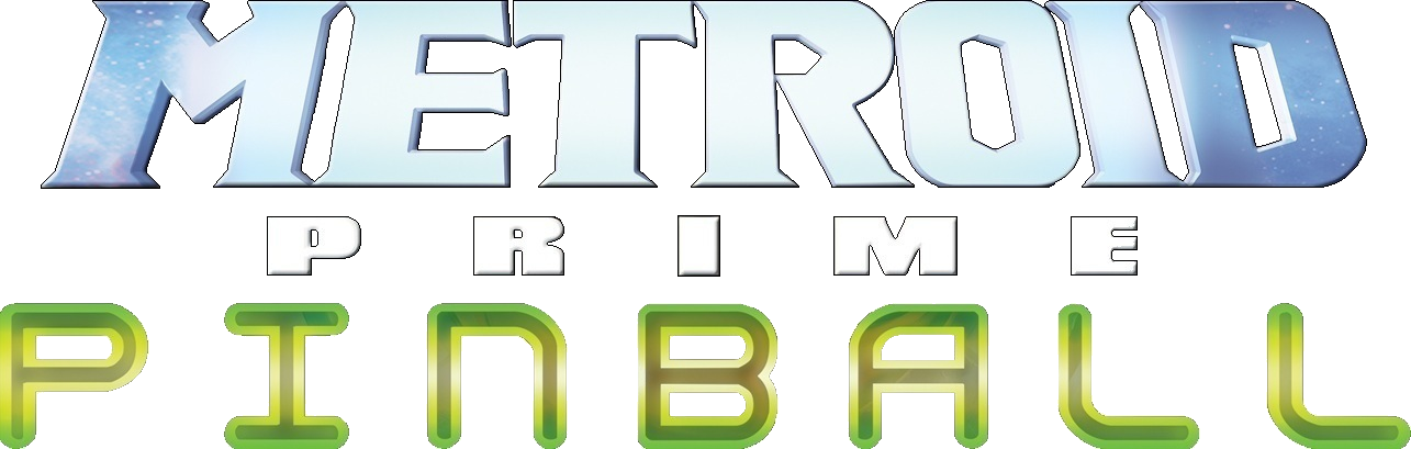 The logotype for "Metroid Prime Pinball".